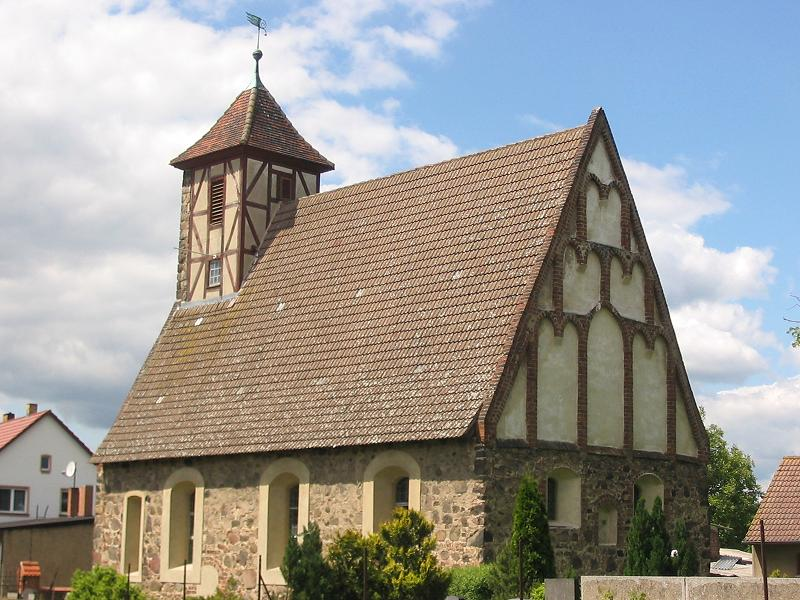 Church Kuhlowitz, built probably in 15th century. Kuhlowitz is an incorporated part of the town Belzig in Brandenburg, Germany.